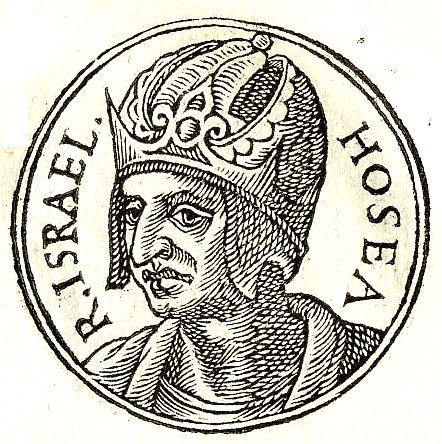 Hoshea was the last king of the Israelite Kingdom of Israel and son of Elah.